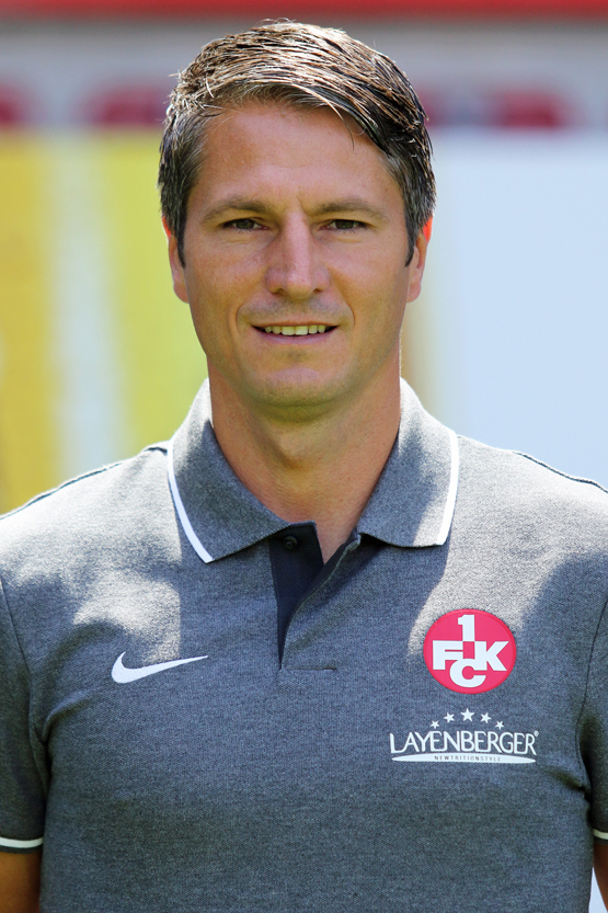 Co-Trainer Alexander Bugera